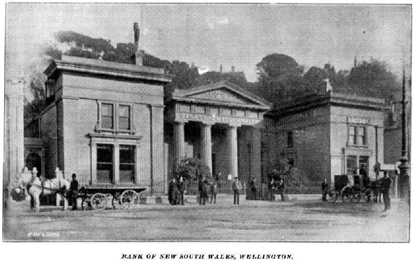 Bank building of the Bank of New South Wales in Wellington, New Zealand.